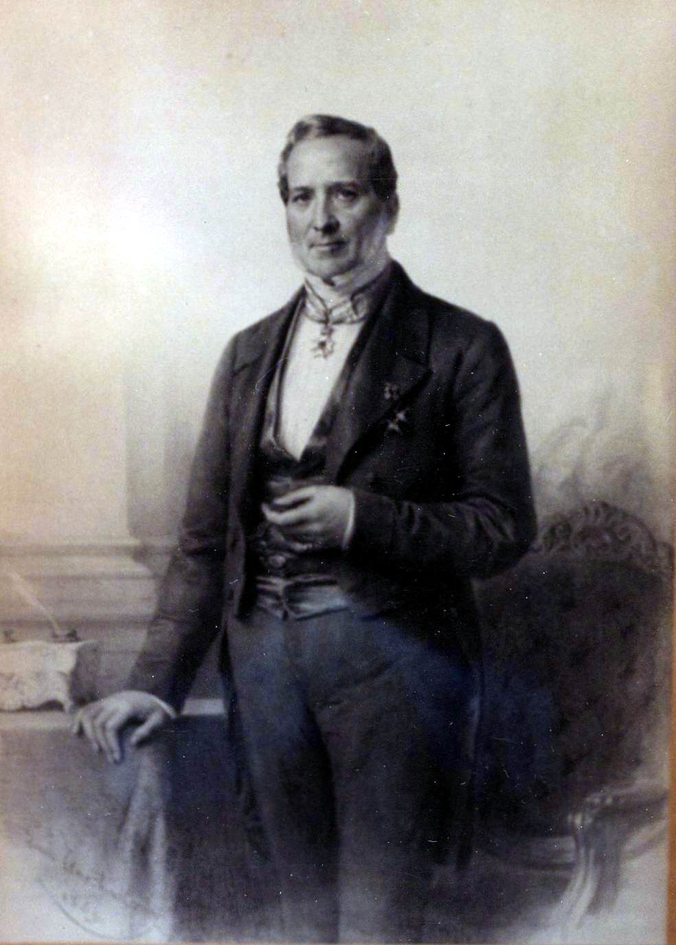 BLANKENHEYM - DOMINIQUE - Fils CAROLUS-JACOBUS (1797-1872)